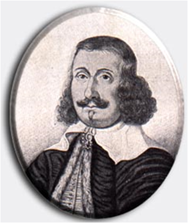 Francis QUARLES (1592-1644); English poet most famous for his Emblem book aptly entitled Emblems